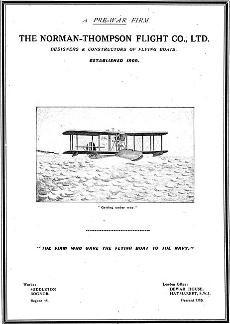 Scan of a Norman Thompson Flight Company Ltd advertisement from the Aeroplane, 5 December 1917.